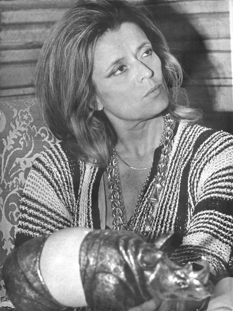 Gabriella Crespi photographed by her son Gherardo Crespi